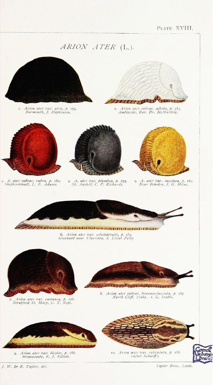 TaylorMonographArionAter